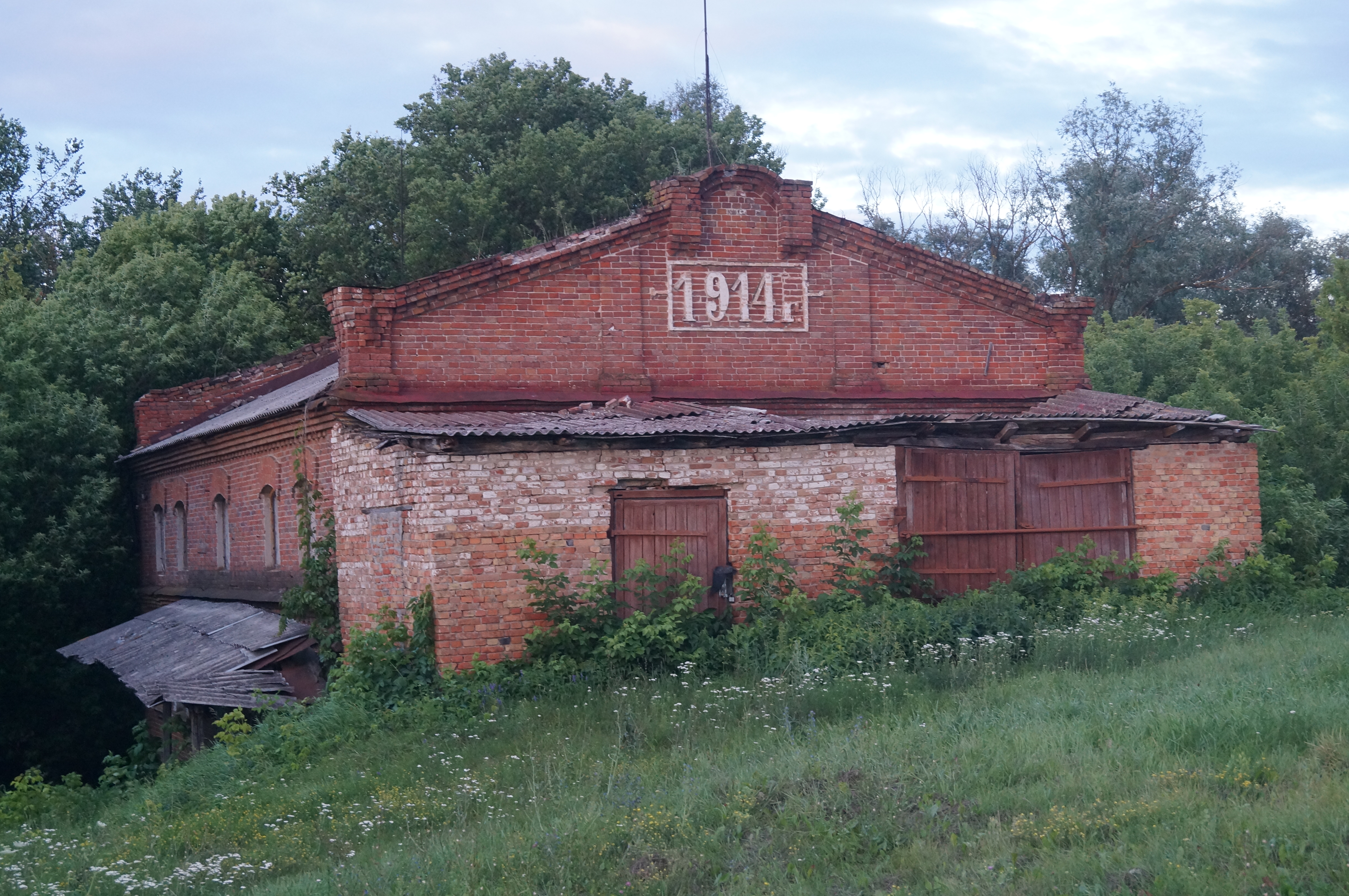 Water Mill in Yutanovka, Belgorodskaya oblast